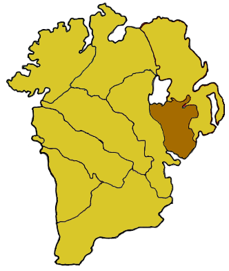 Catholic Diocese of Dromore.